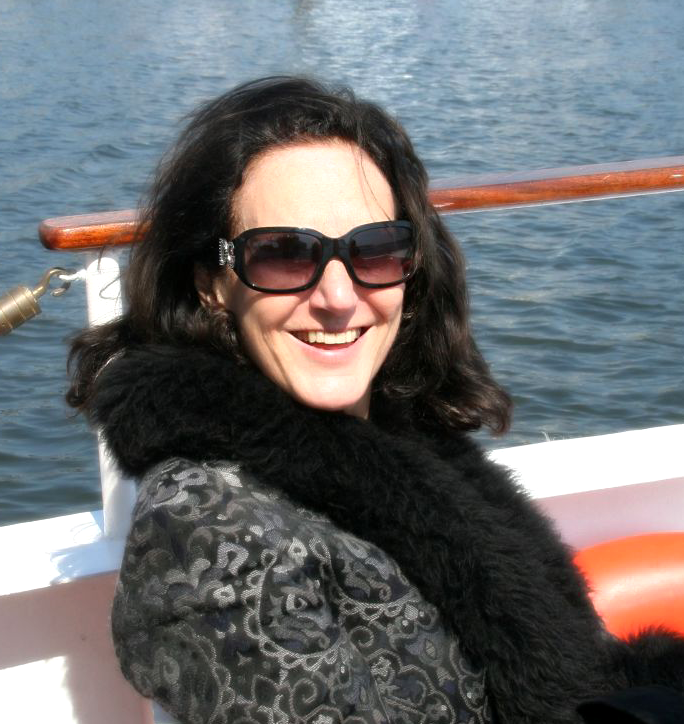 An image of Lesley Joseph in Cardiff, Wales.